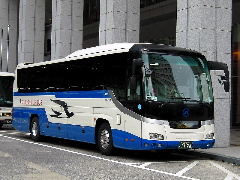 Chugoku JR bus Isuzu GALAHighwaybus "New Breeze"(Tokyo-Hiroshima)